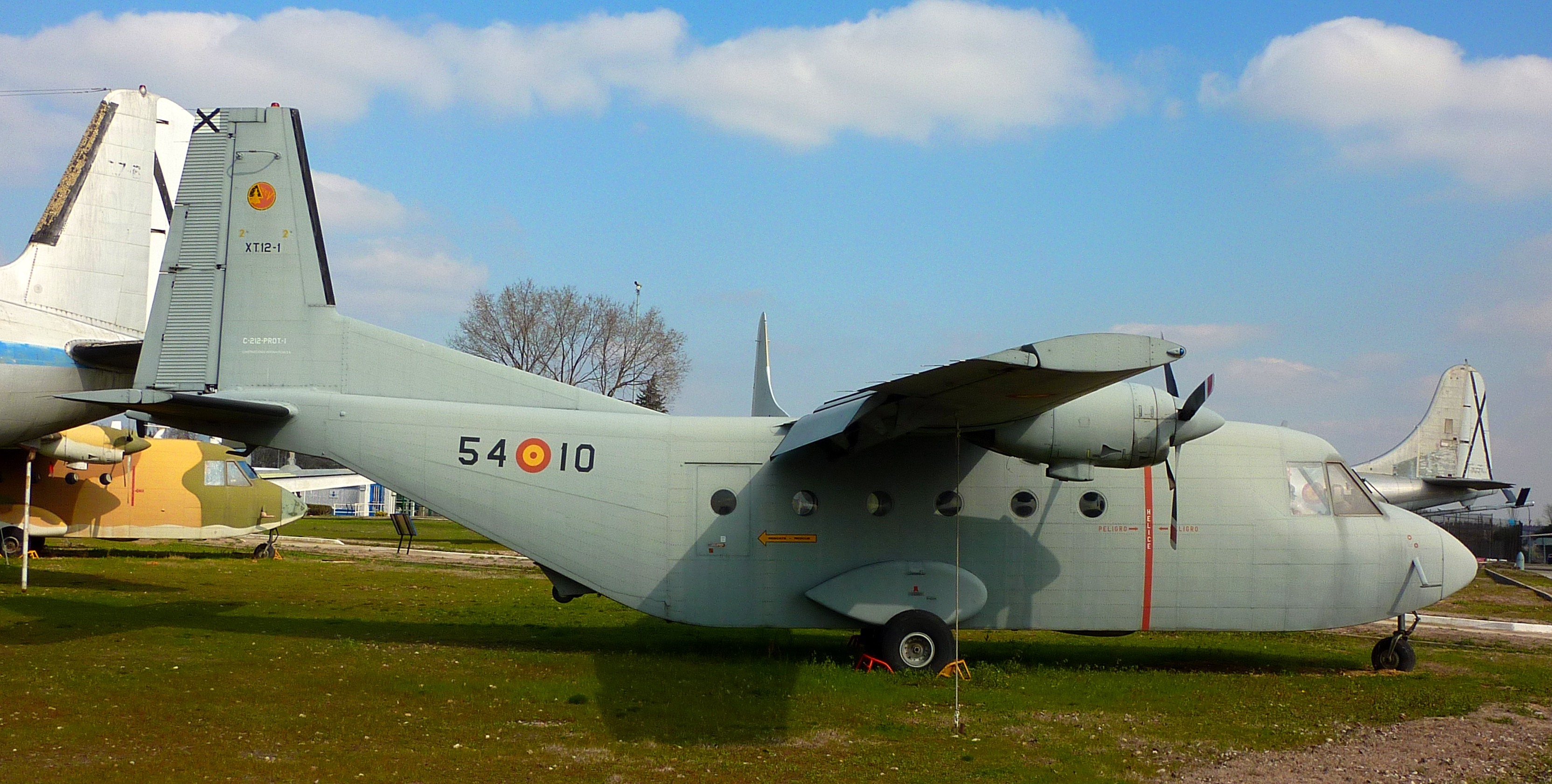 First prototype of the CASA C-212 shown at the Air Museum of Cuatro Vientos, Madrid, Spain.